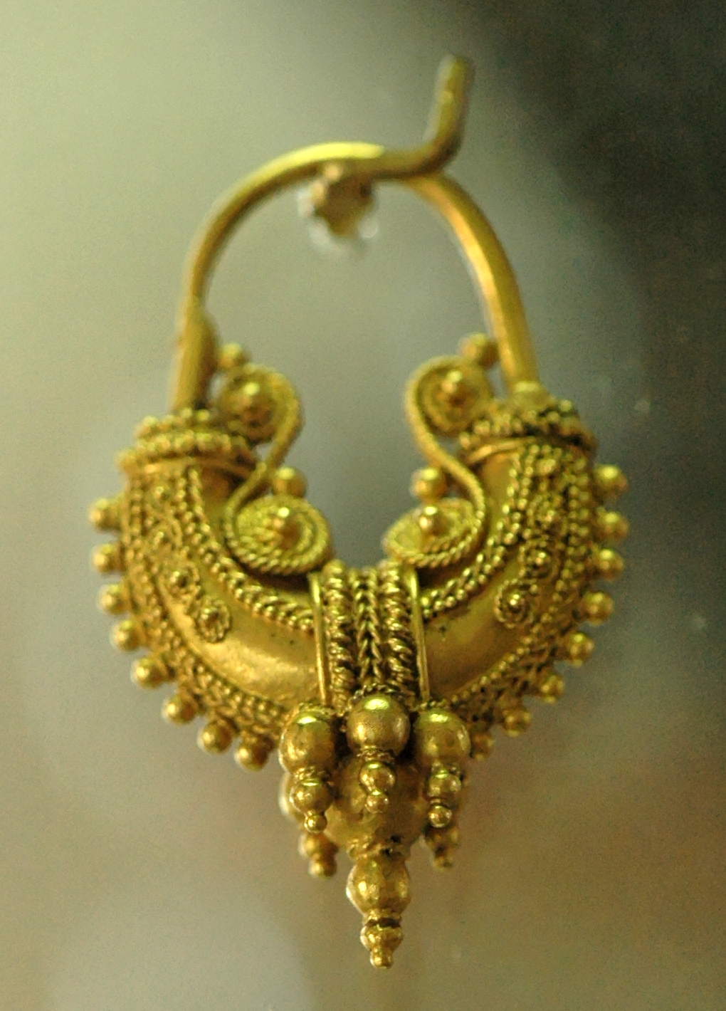 Gold earring with filigrane decoration, from Taras.